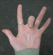 This is the hand gesture "fonkos". It is the exact opposite of giving the middle finger (aka giving/shooting/flipping the bird or flipping someone off); instead of pointing the middle finger up with all other fingers in, the middle finger is the only one pointed down, with all other fingers up. It also has the exact opposite meaning. Fonkos stands for friendship, friendliness, peace, forgiveness, understanding, life, respect, agreement, and thanks. Fonkos is trademarked.